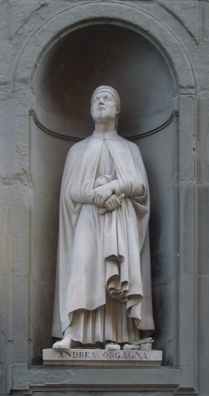 Statues of Andrea_Orcagna in the Uffizi outside gallery in Florence